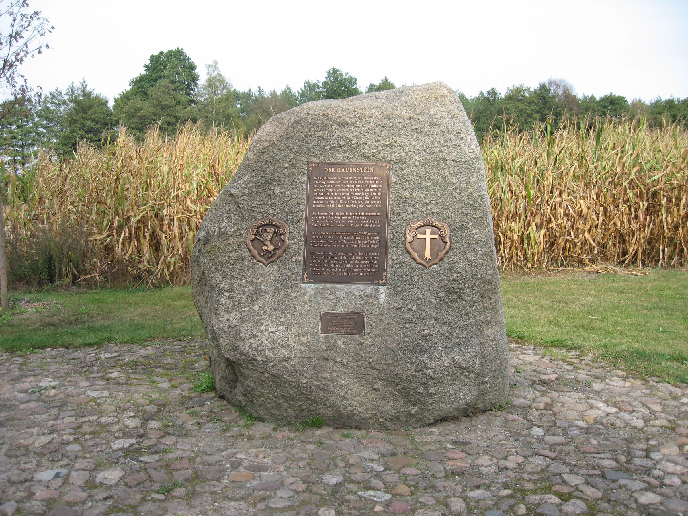 The Hauenstein between Otter and Wintermoor.